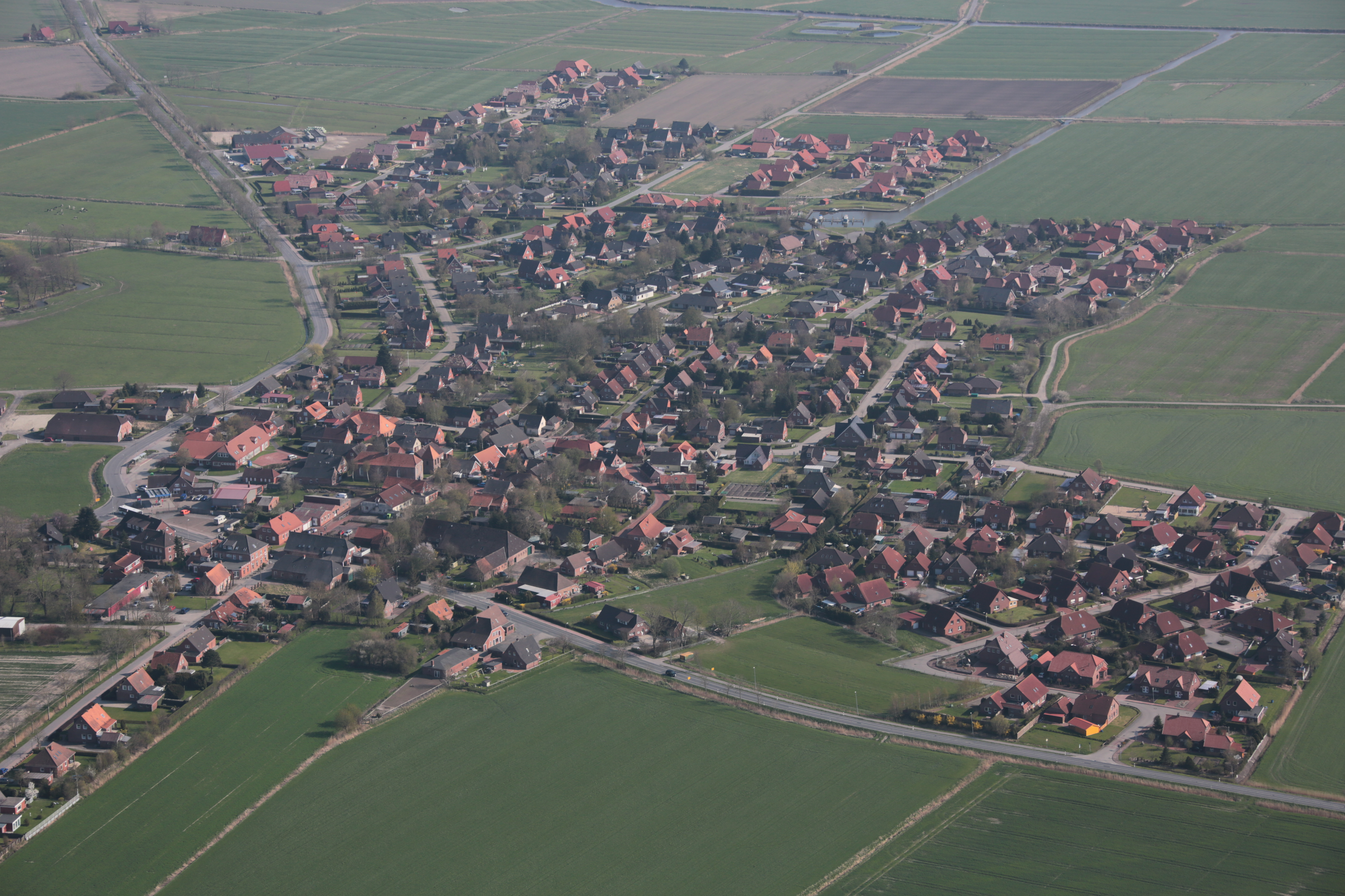 Luftaufnahme von Wirdum beim Fotoflug von Nordholz-Spieka nach Oldenburg und Papenburg This photo was taken by Alchemist-hp. If you use one of my photos, an email (account needed) or a message or direct to: my email account would be greatly appreciated. Please note the license terms. Other licensing terms can get discussed, too. This file is copyrighted and has been released under a license which is incompatible with Facebook's licensing terms. It is not permitted to upload this file to Facebook.